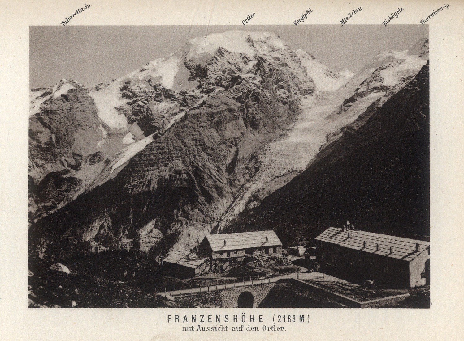 Ortler from Franzenshöhe